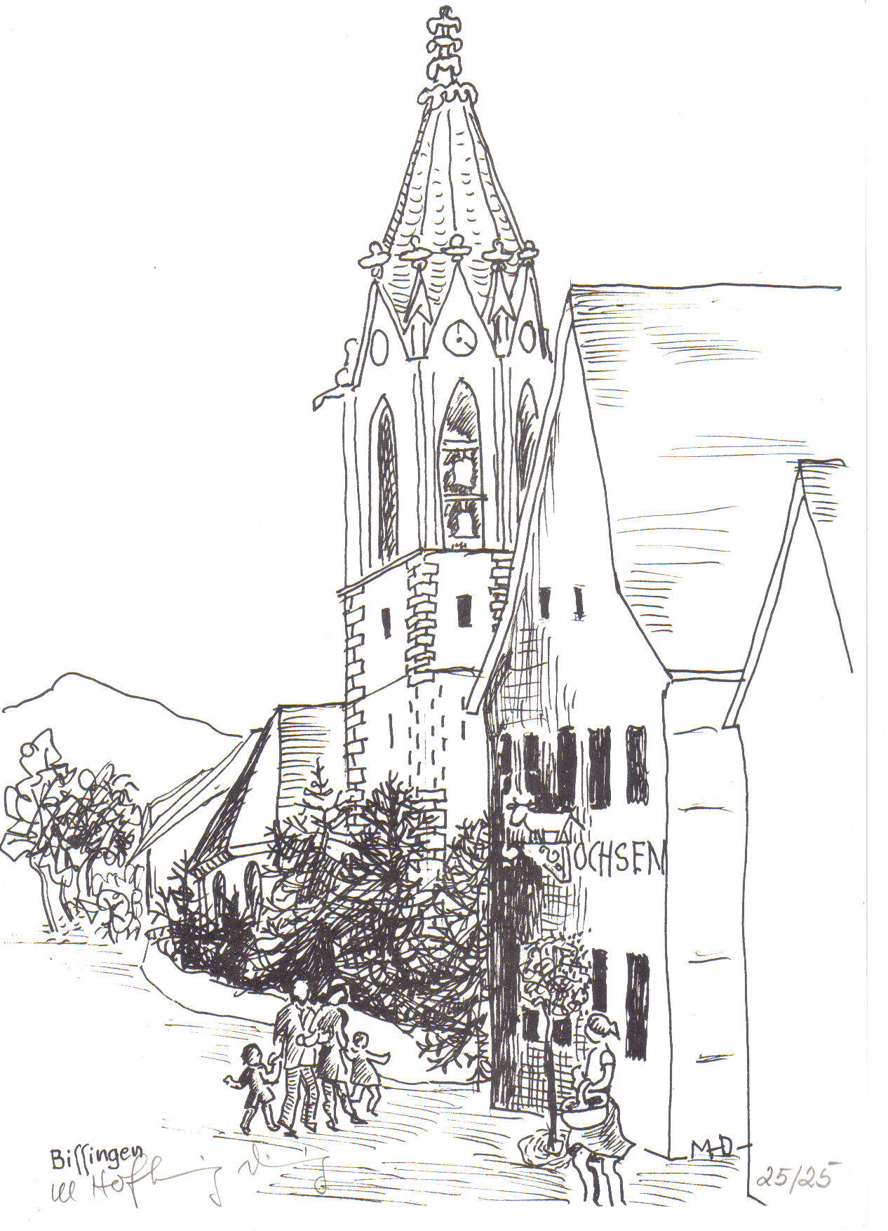 Bissingen an der Teck, ink drawing, 20 x 30 cm